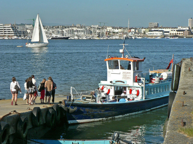 The Cremyll Ferry on the Tamar, near to Cremyll, Cornwall, Great Britain. The ferry runs between Cremyll, on the Cornish side of the Tamar, and Admiral's Hard in the Stonehouse district of Plymouth across the Tamar's Narrows. It provides ready access to the estate and house at Mount Edgecumbe but is restricted to foot passengers. Mount Wise, an area in which the Royal Navy HQ has been based, is seen in the background but this view shows the more recent marina development.